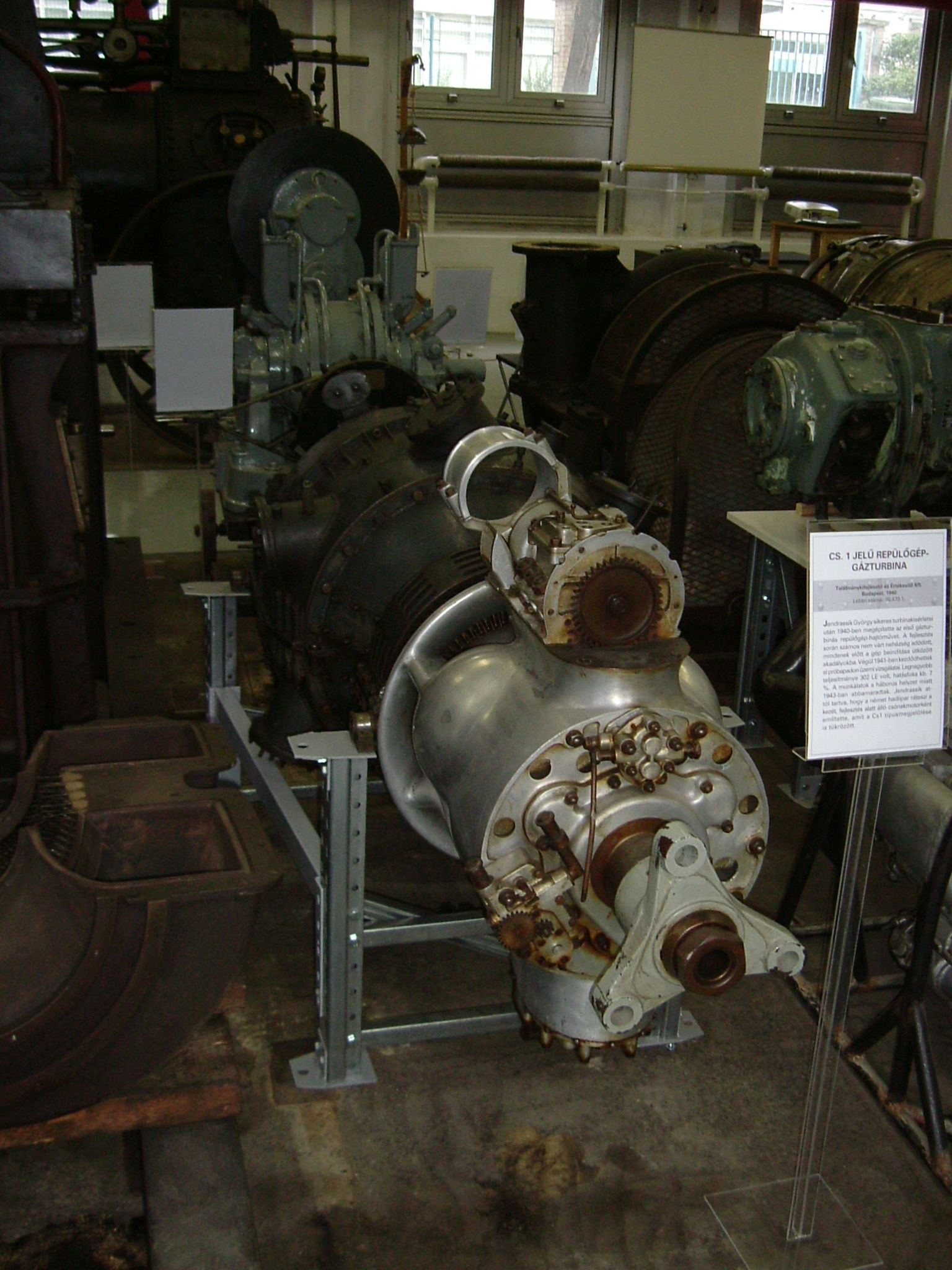 CS-1, in Museum of Technology, Budapest.